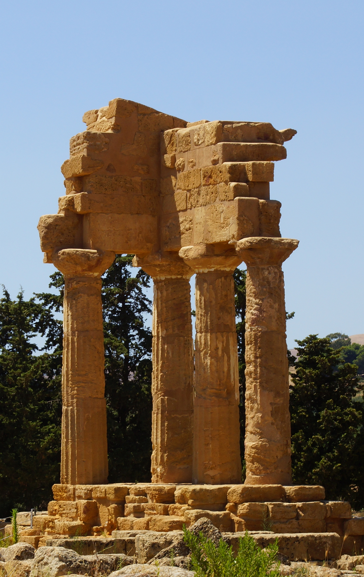 Temple of Dioscures 5th century BC Temple of Castor and Pollux Valley of the Temples Agrigento Sicily Italy Photo Wolfgang Pehlemann DSC07453